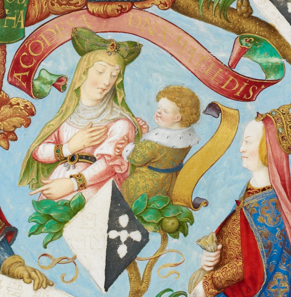 Matilda II of Boulogne, Countess of Boulogne in her own right and Queen of Portugal by marriage to King Afonso III from 1248 until their divorce in 1253.